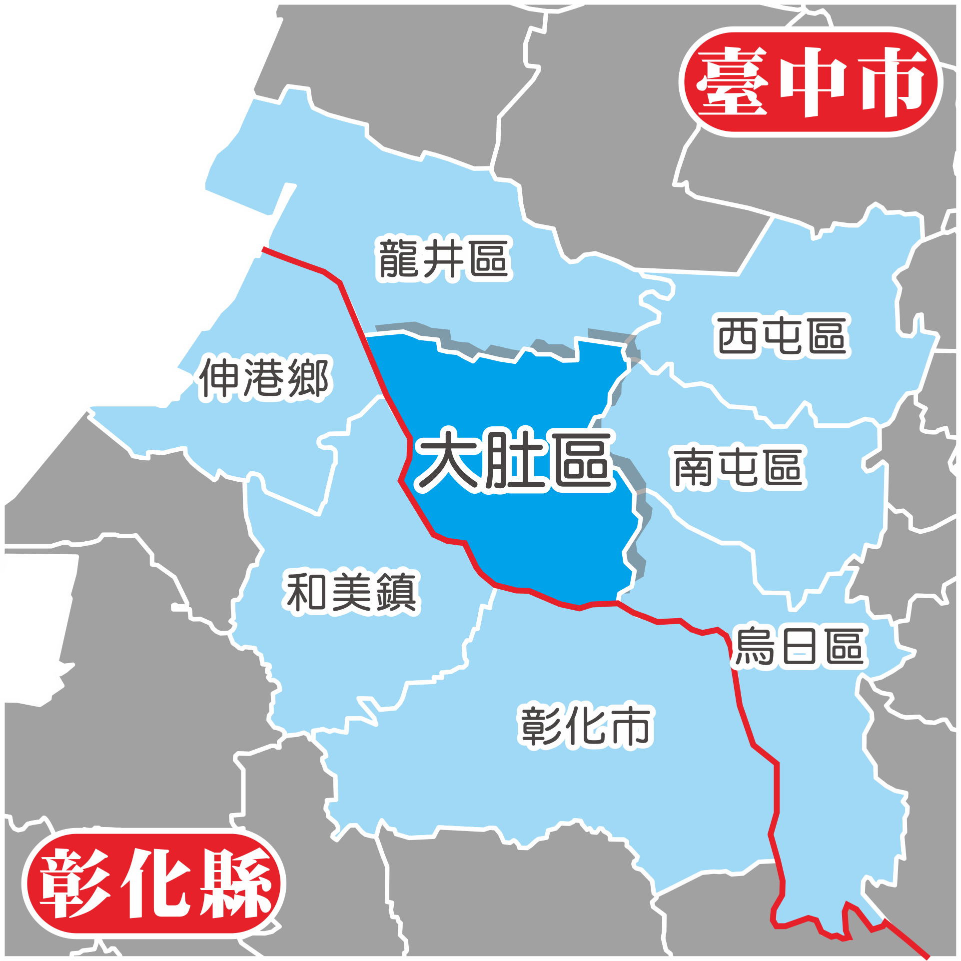 Dadu District中文（台灣）: 臺中市大肚區。